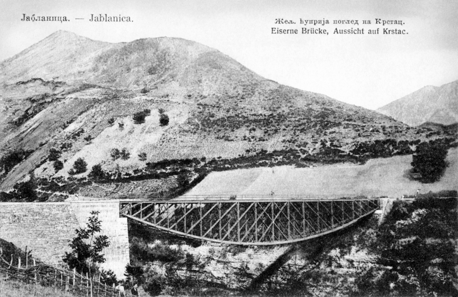 The original narrow-gauge railway bridge on the Neretva River in Jablanica